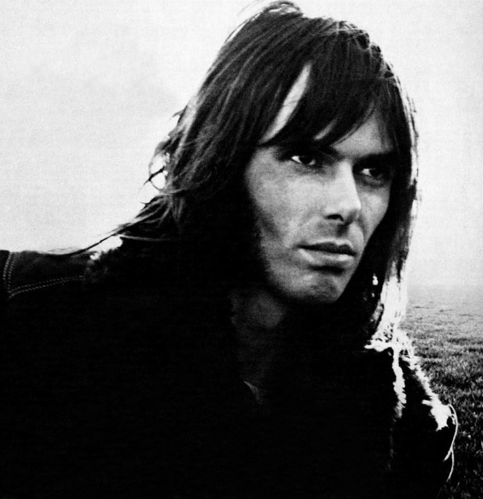 Trade ad for Nicky Hopkins's album The Tin Man Was a Dreamer.To better adapt it to his respective Wikipedia article, the ad was cropped and cleaned in a graphics editing program. The original can be viewed at the source below.